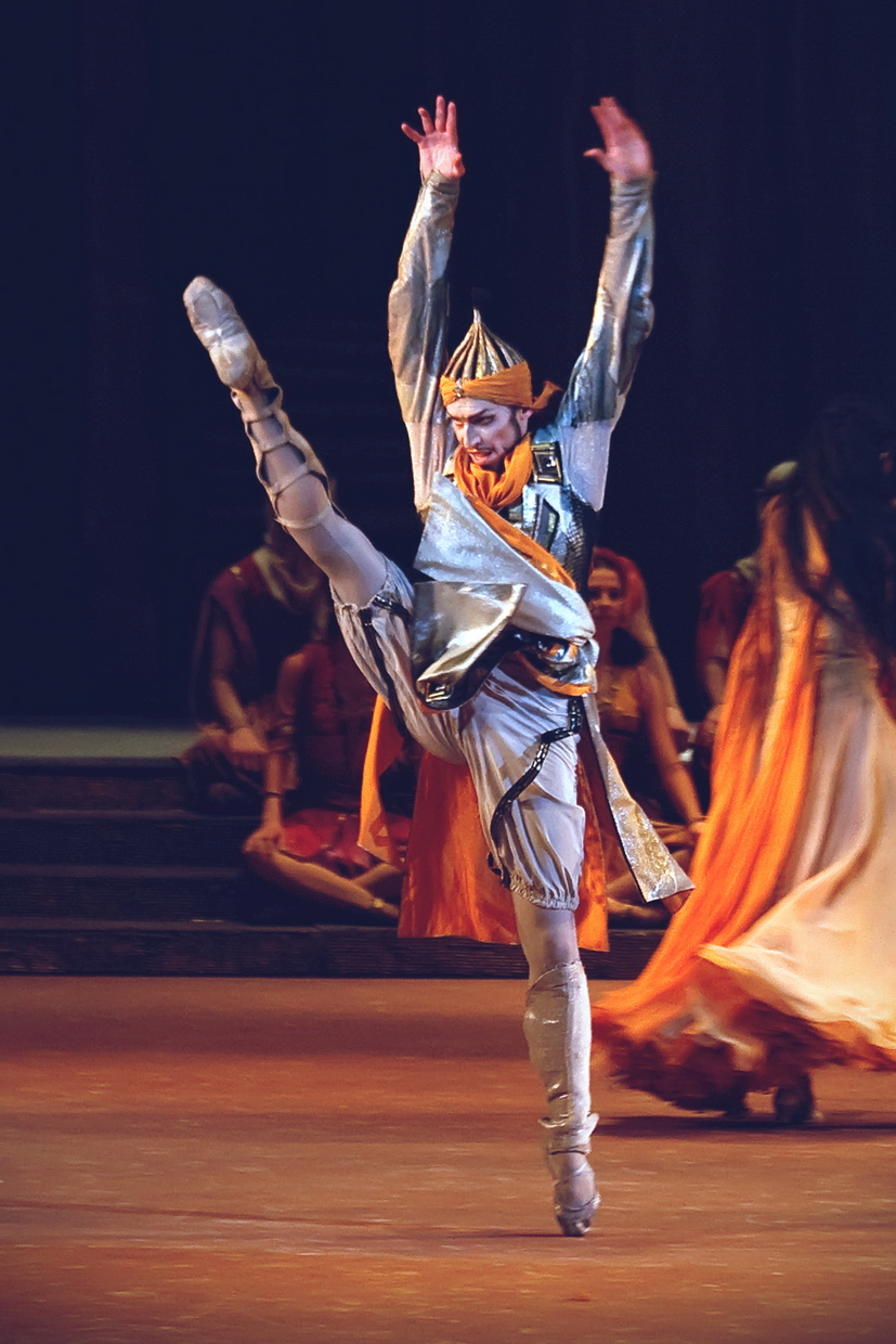 Dmitri Belogolovtsev Abderahman in the ballet "Raymonda", Bolshoi Theatre, Moscow